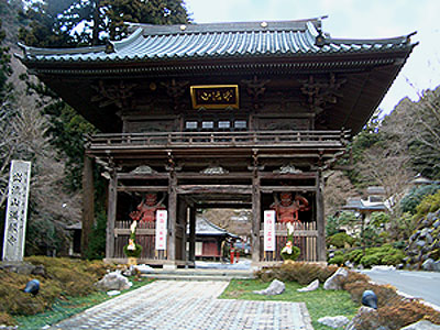 Sanmon (Niōmon) gate of Mangan-ji temple in Tochigi, Tochigi prefecture